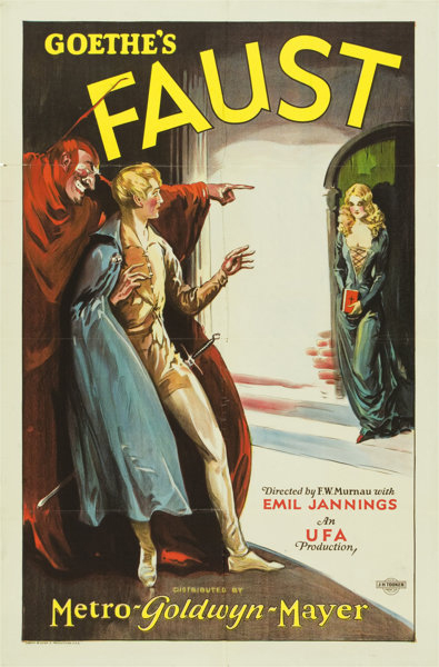 Poster for the U.S. release of the 1926 UFA film Faust, directed by F. W. Murnau